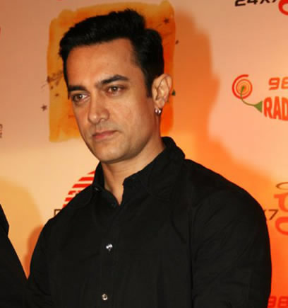 Indian actor Aamir Khan depicted person: Aamir Khan (age: 43.08)